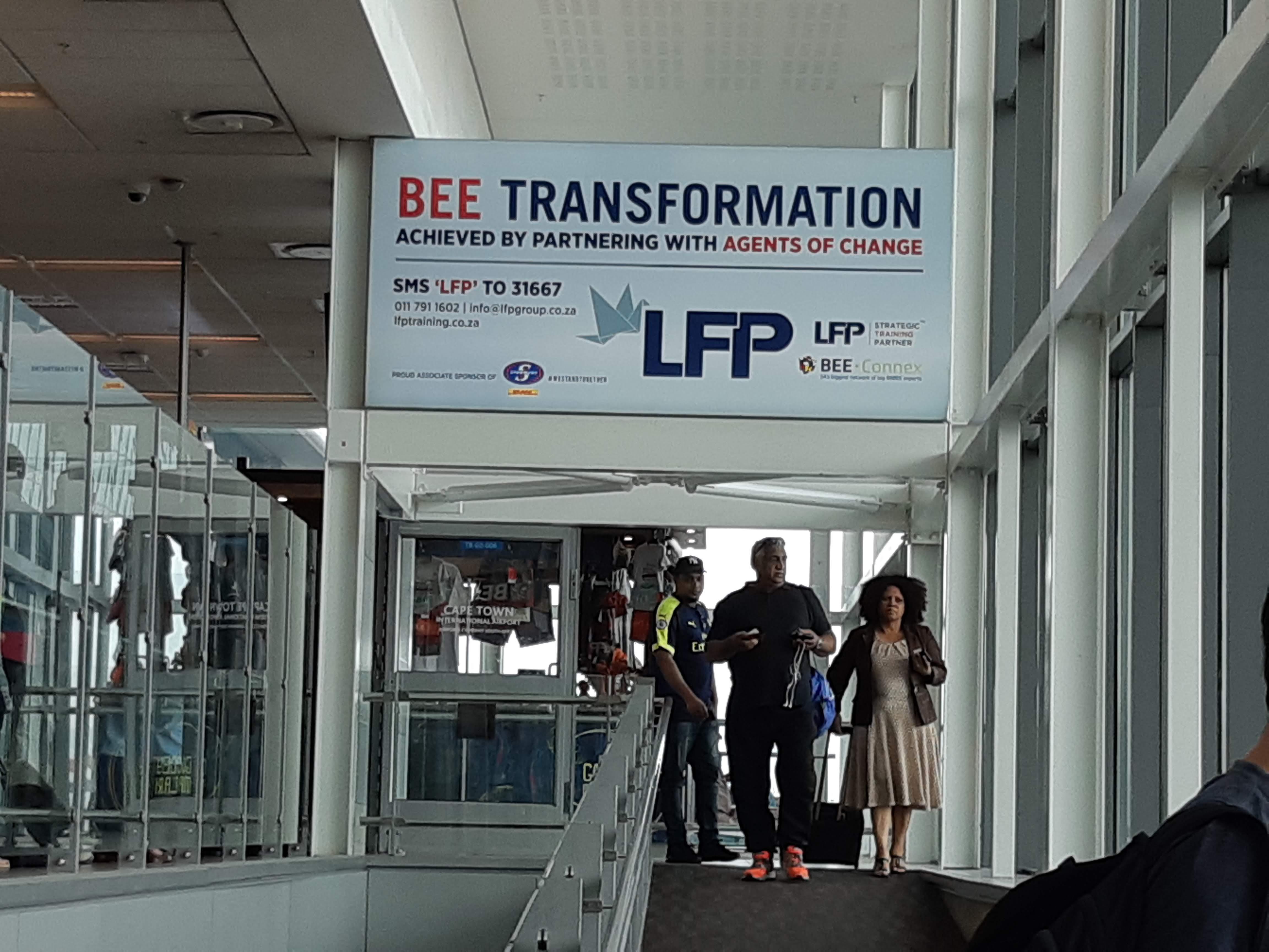 An advert at Cape Town International Airport for a company specialising in making South African companies complaint with Black Economic Empowerment (BBE) regulations and government procurement policies.